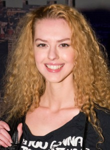 Russian actress Leanca Grau, December 21, 2009 in Moscow